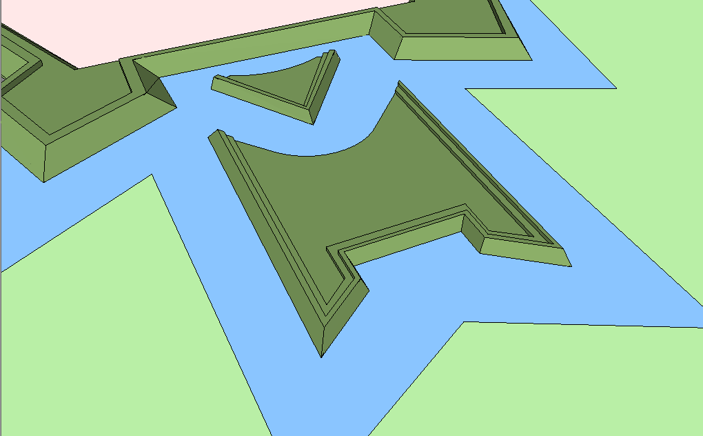 Example of fortification type "Hornwork"